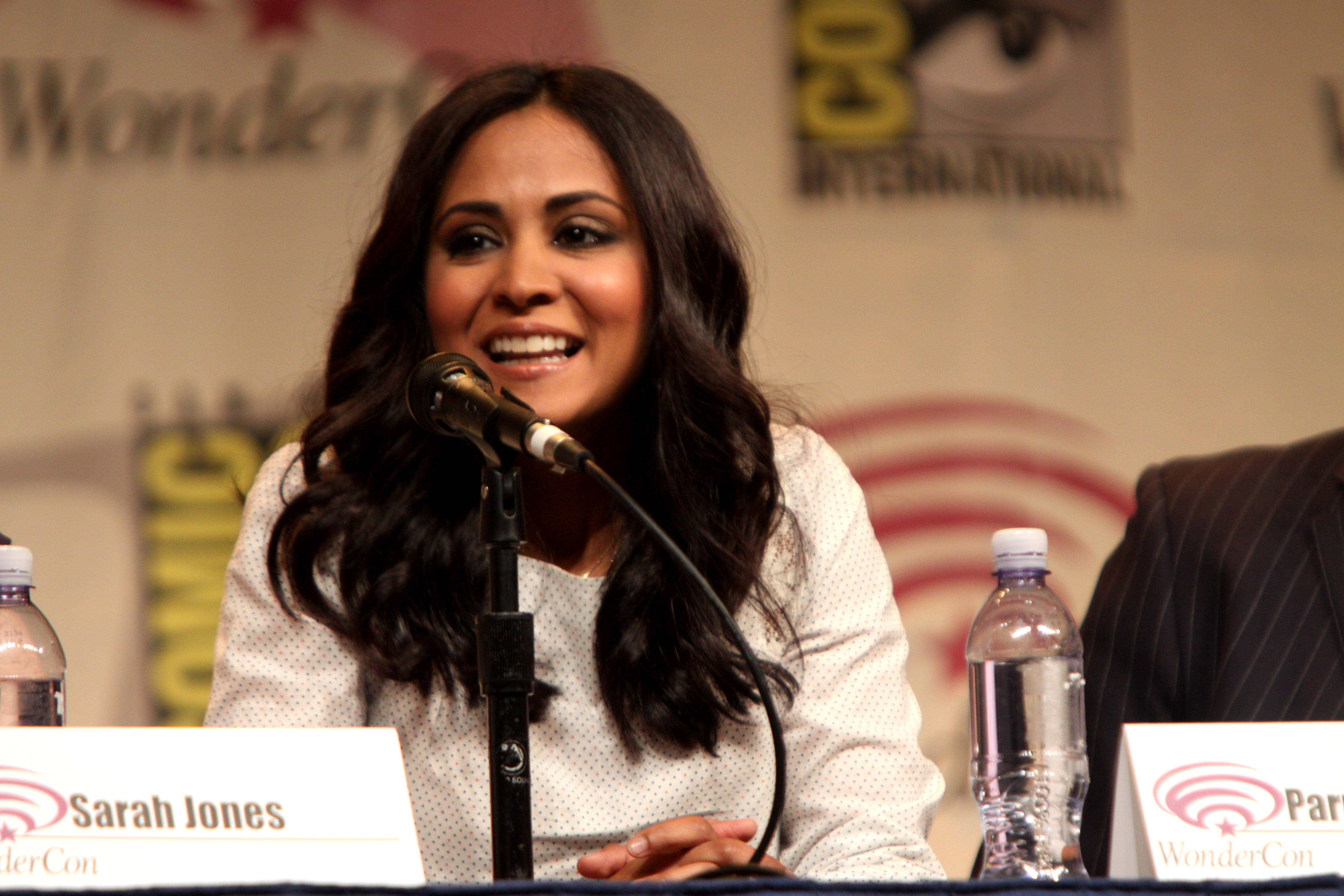 Parminder Nagra speaking at the 2012 WonderCon in Anaheim, California.